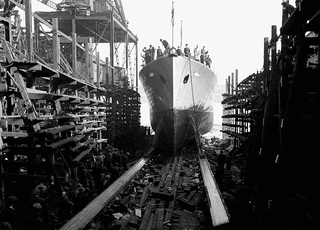 View of the frigate the H.M.C.S. Toronto sliding down the ways into the water at her launch ceremony on "Ships for Victory" day. Quebec City, Canada.